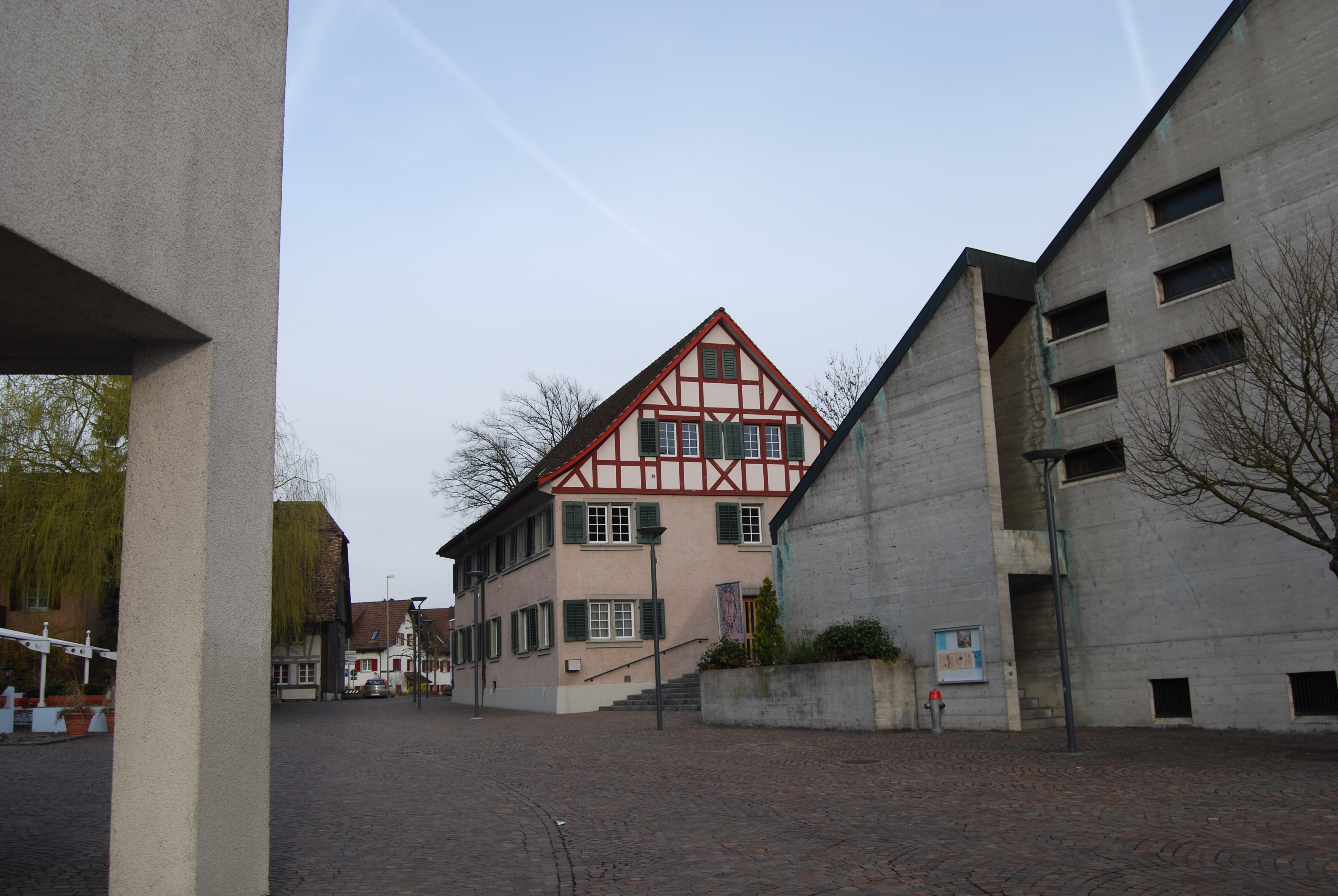 Oberglatt, canton of Zürich, SwitzerlandEsperanto: Oberglatt, Kantono Zuriko, Svislando